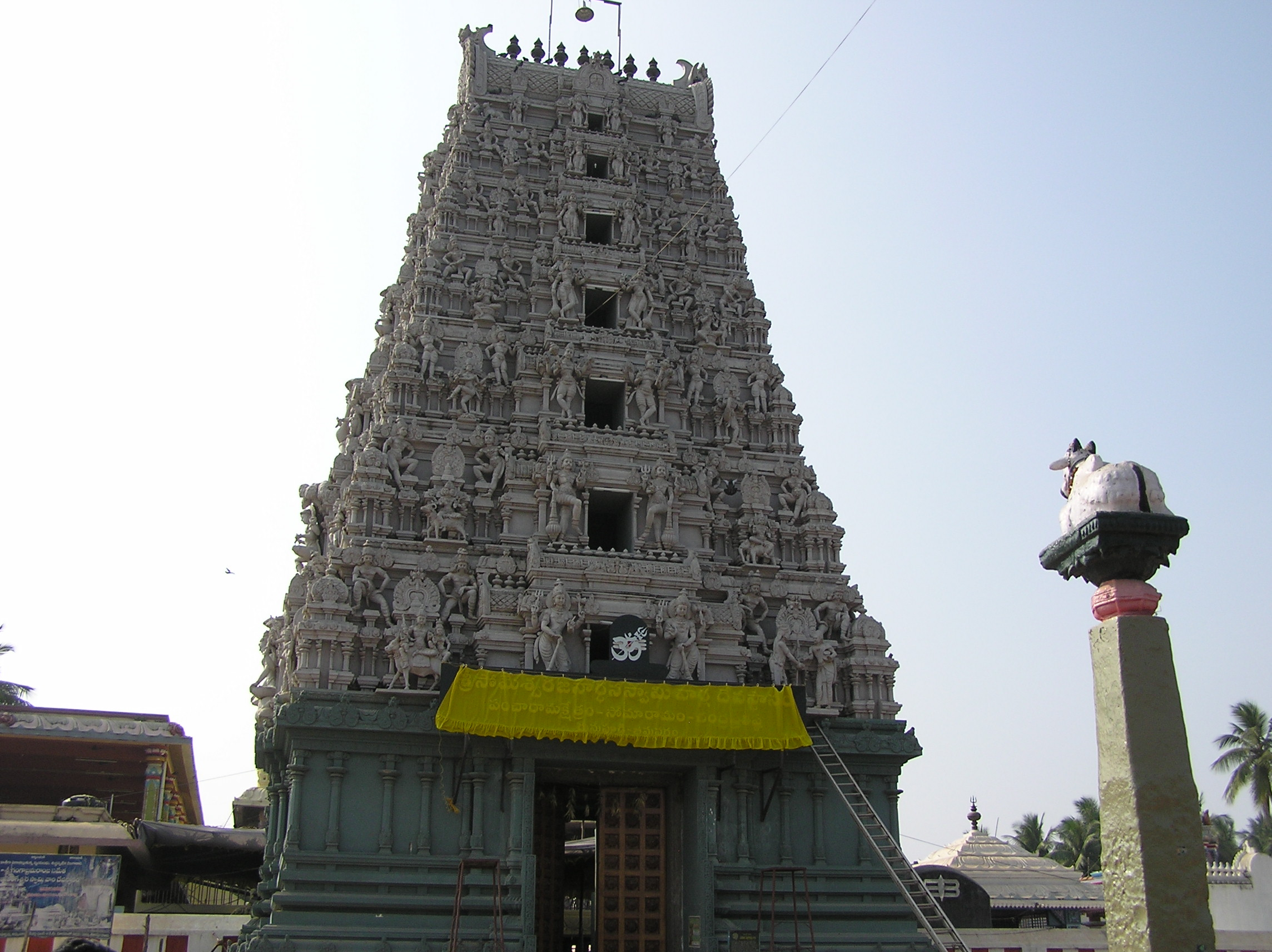 Someswaraswamy temple